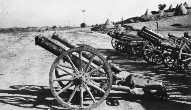 TURKISH GUNS CAPTURED BY 5TH AUSTRALIAN LIGHT HORSE (5ALH).